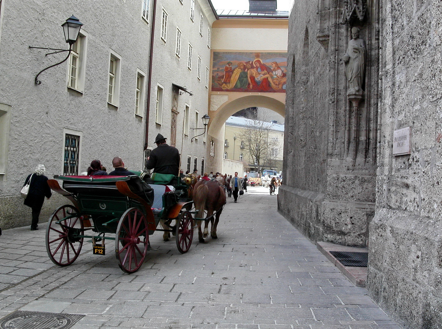 Salzburg, Austria